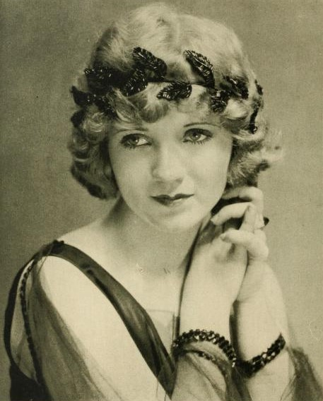 Publicity photo of Mary Miles Minter from Stars of the Photoplay